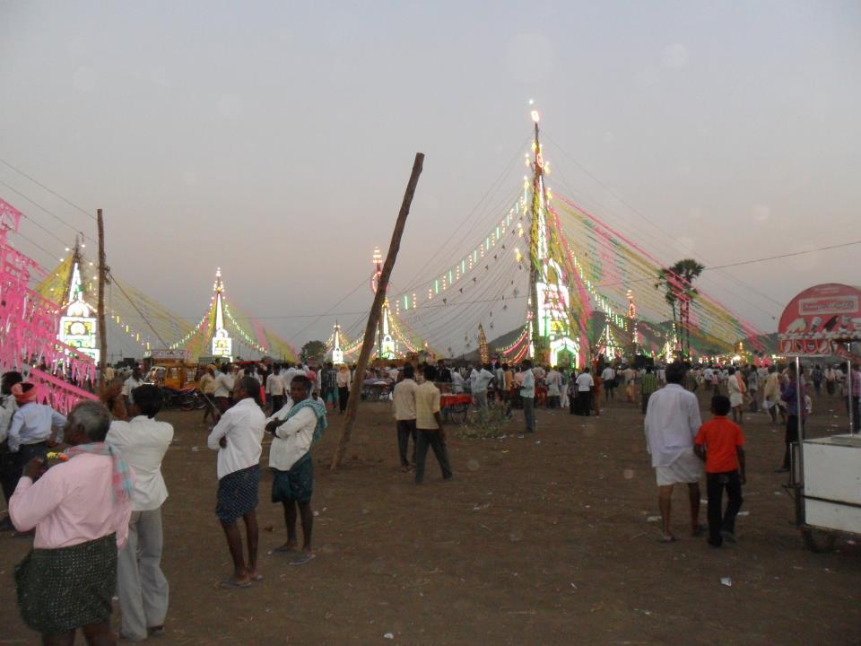 Sivaratri celebrations in Prabhalu